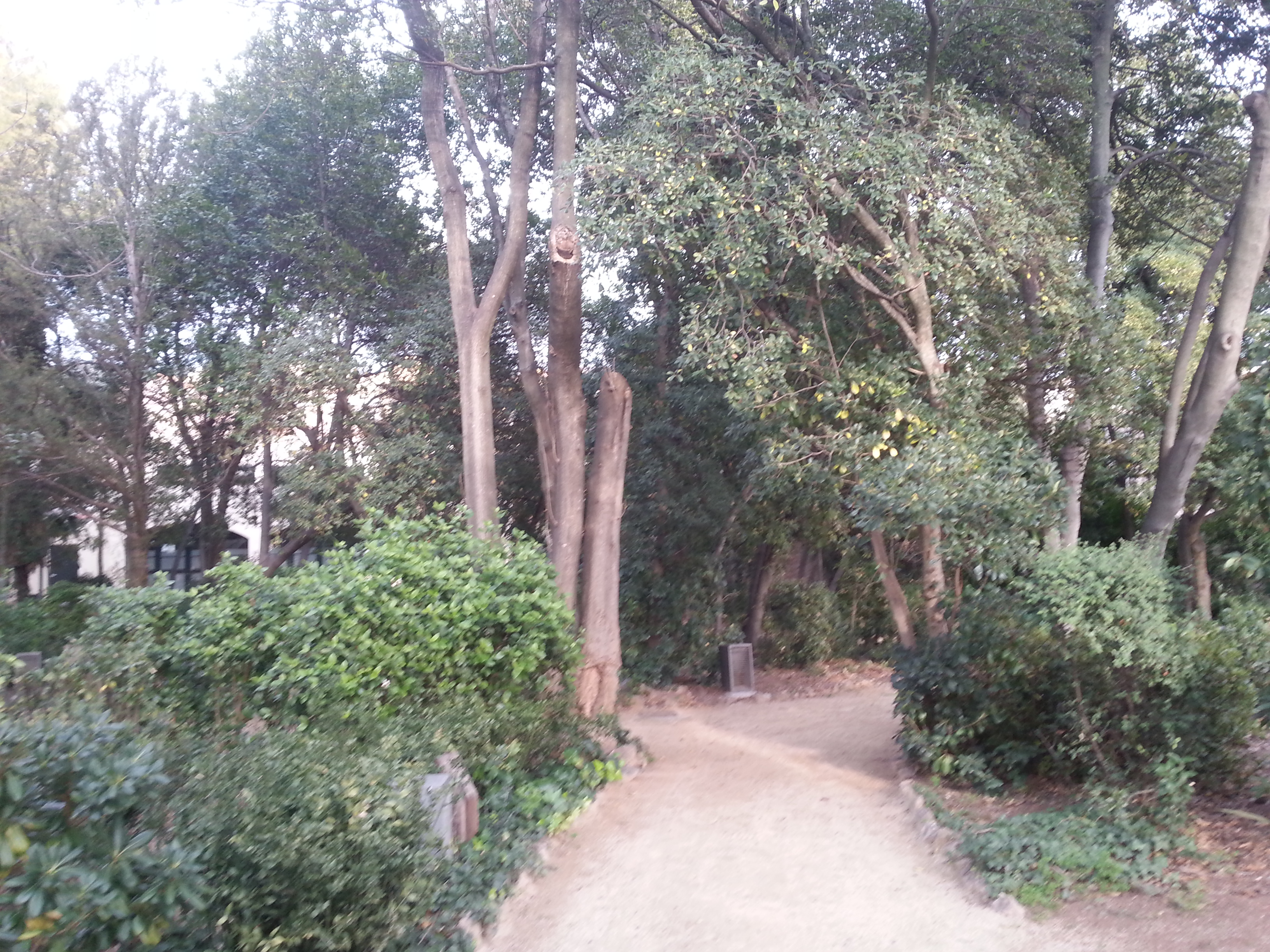 Palau Tolrà Garden